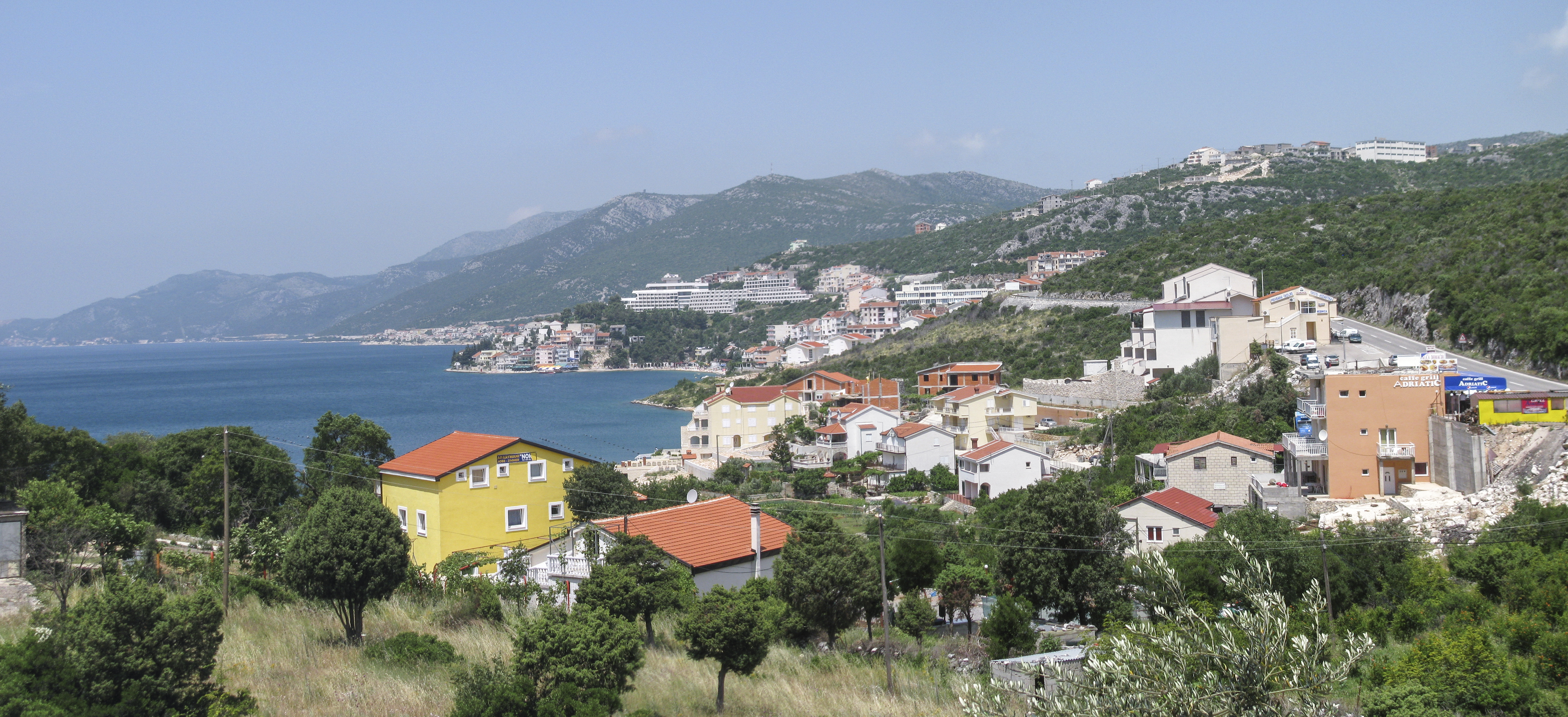 Neum, Adriatic Sea, Bosnia and Herzegovina Photo taken from Orka Hotel